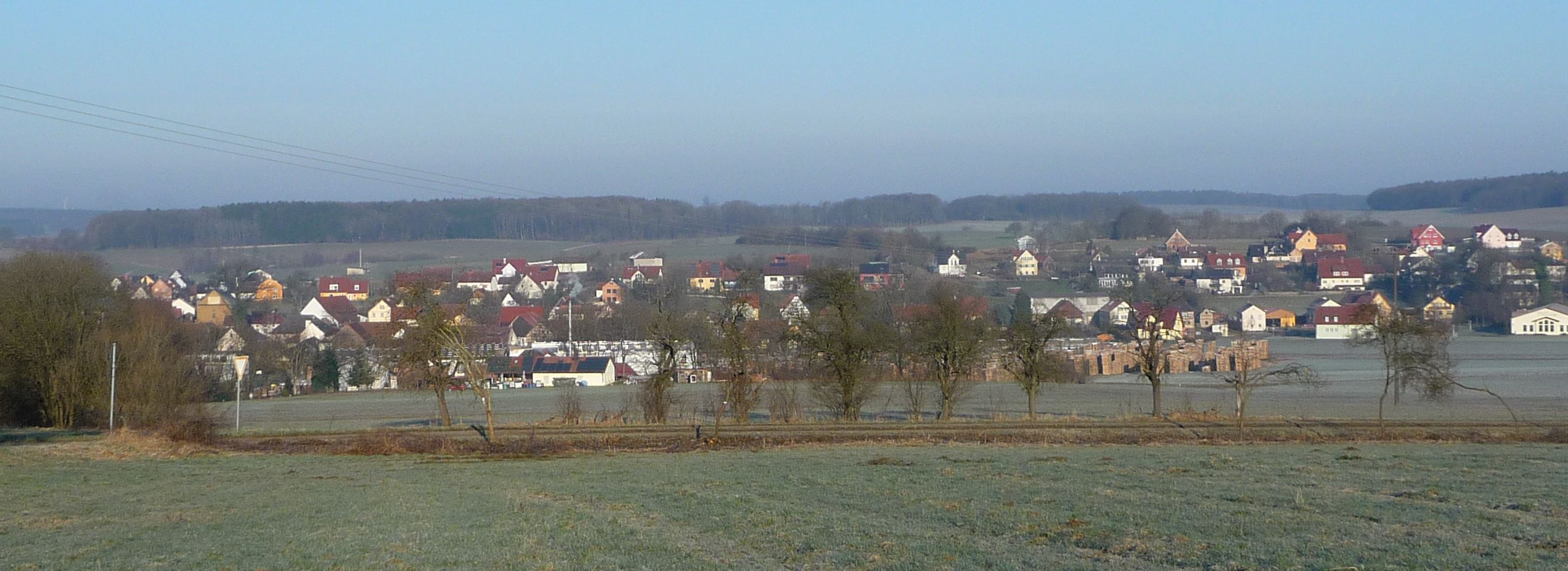 Burgellern